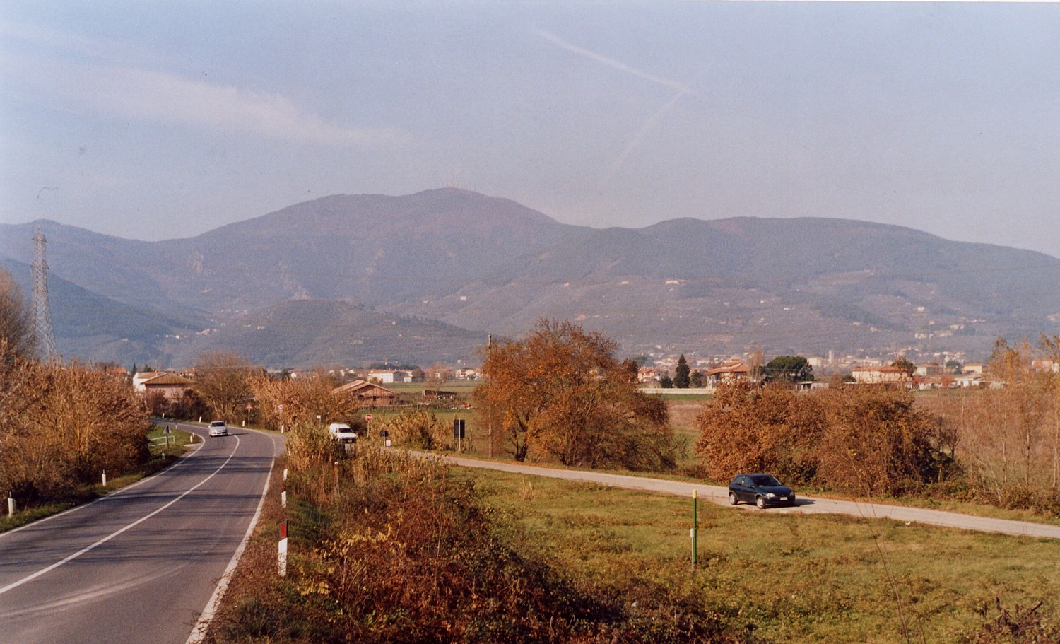 Bientina (Province Pisa, Tuscany, Italy) View of Monte Serra (Monte Pisano) Photo: November 2006 by myself